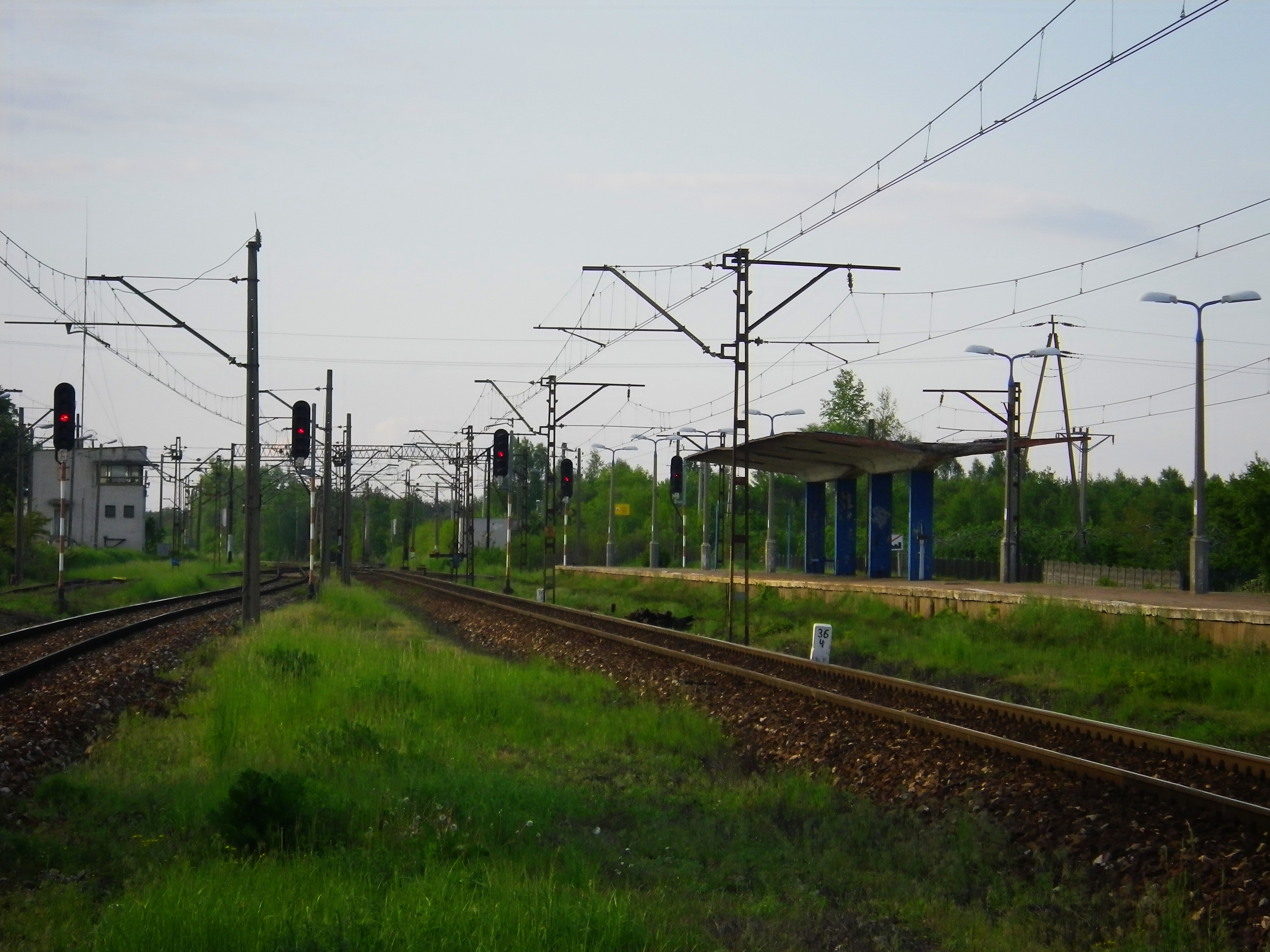 Train station Czachówek Południowy (Masovian Voivodeship, Poland)